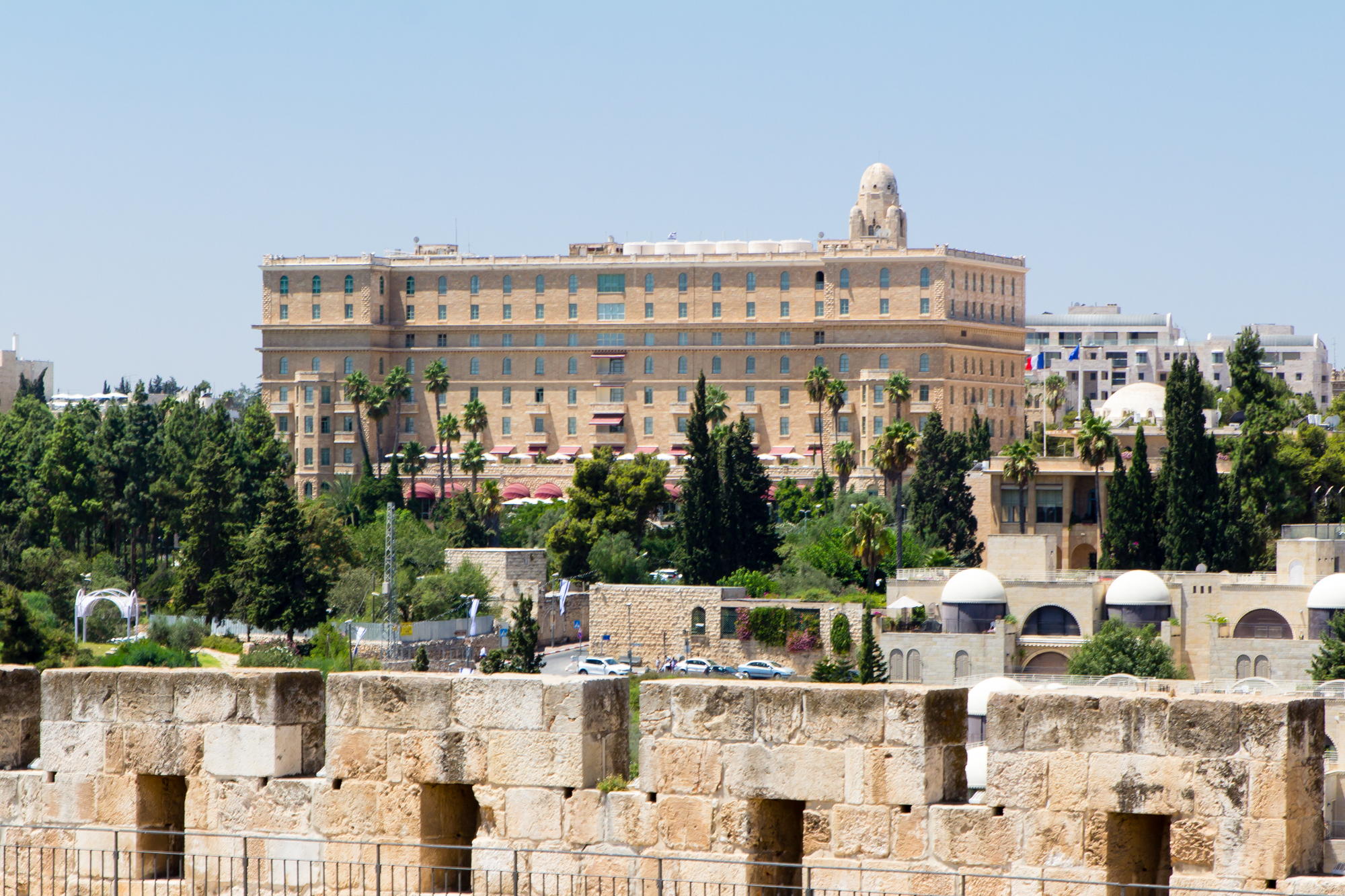 The King David Hotel from the Tower of David